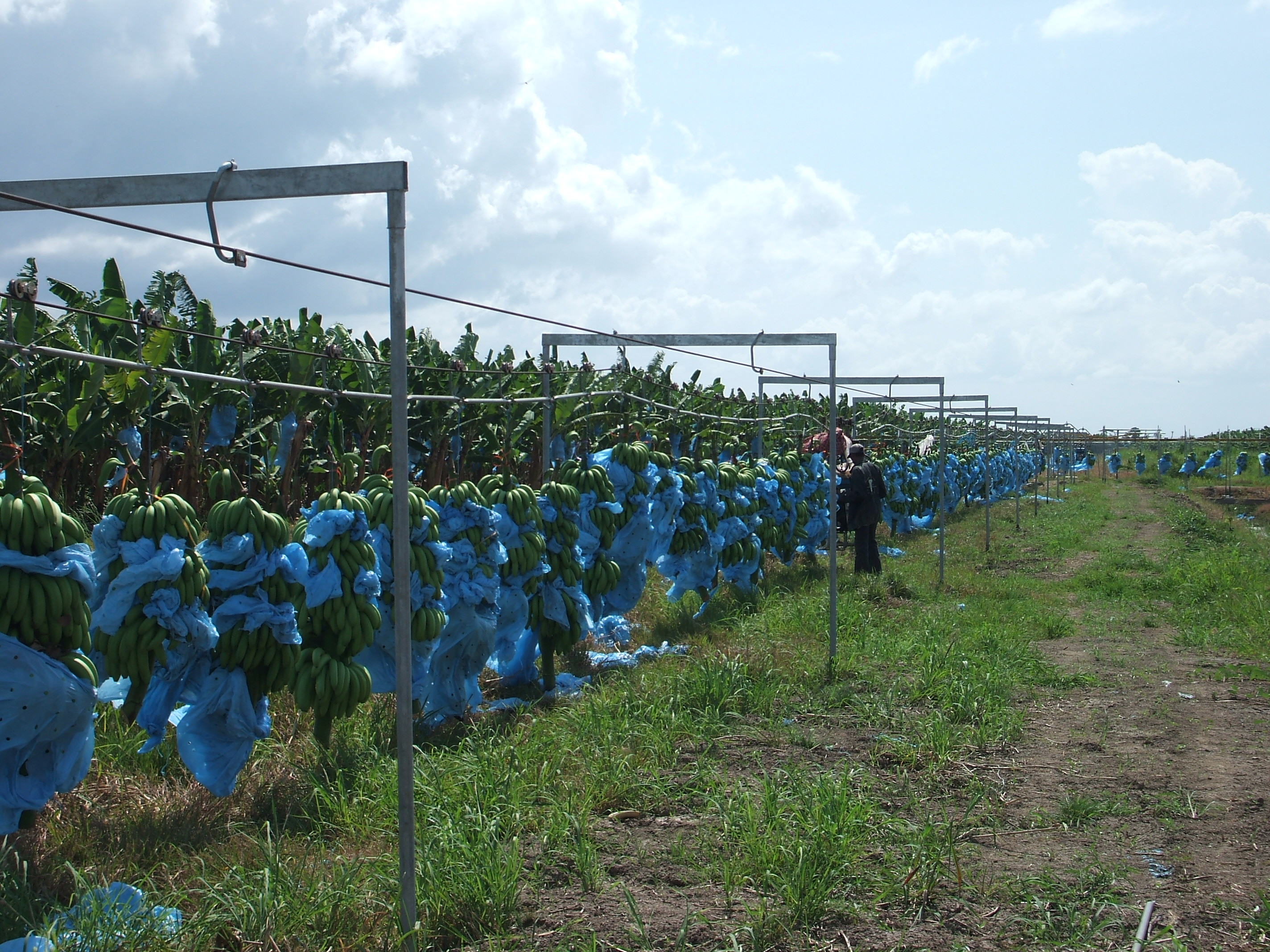 Cableways are integral transport solutions for agricultural products in low slope terrains. The most important benefits of them are: adaptability and flexibility to all terrains, low operational and maintenance costs, better quality of transported products, guarantee of transport under any climatic or soil condition, addition of marginal productive area and non compacting of the agricultural soil.